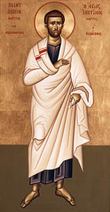 Justin The Philosopher